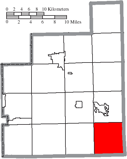 Map of the municipal and township boundaries of Geauga County, Ohio, United States, as of the 2000 census, with the location of Parkman Township highlighted. Township borders are shown only in unincorporated areas in order to differentiate incorporated and unincorporated areas more clearly.